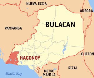 Map of Bulacan showing the location of Hagonoy